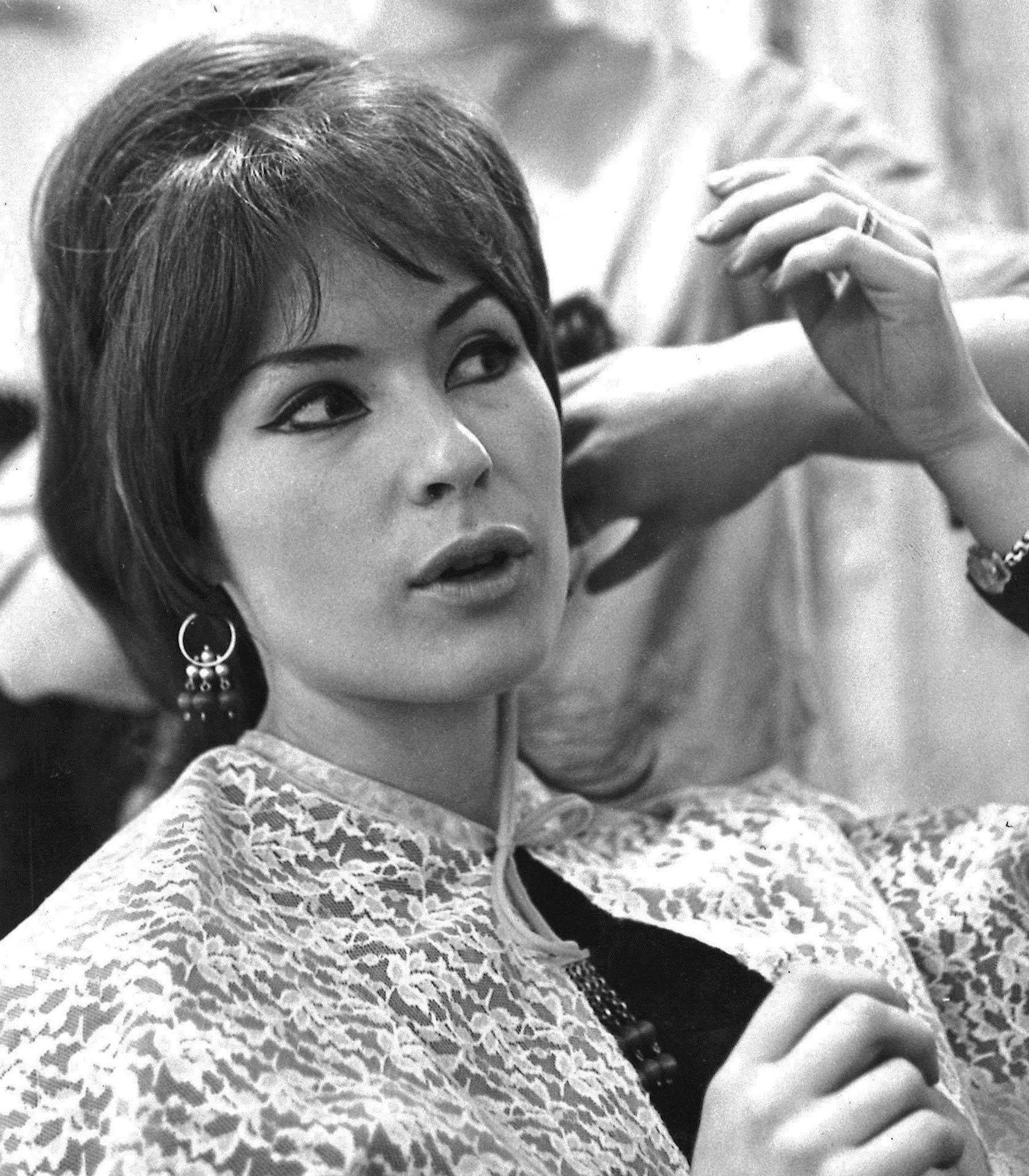 Photograph of the Finnish vocalist Tamara Lund (1941–2005).